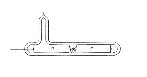 Drawing of a coherer, a radio wave detector used in the first radio receivers from about 1890 to 1910. The coherer was invented by Edouard Branly in 1890, but this widely used design was perfected by Guglielmo Marconi around 1900. It consists of an evacuated glass tube with two electrodes (P) spaced a few millimeters apart, with loose metal filings in the space between. When a radio signal from an antenna is applied across the electrodes, it causes the filings to clump together (cohere), reducing their resistance. This allowed a current from a battery to flow in a DC circuit attached to the electrodes, making a click sound in an earphone or a mark on a paper tape, to record the code symbol received. The filings used in this Marconi coherer were made of 90% nickel - 10% silver. The slanting ends of the electrodes allowed the sensitivity of the device to be adjusted somewhat by rotating the tube, changing the space occupied by the filings.